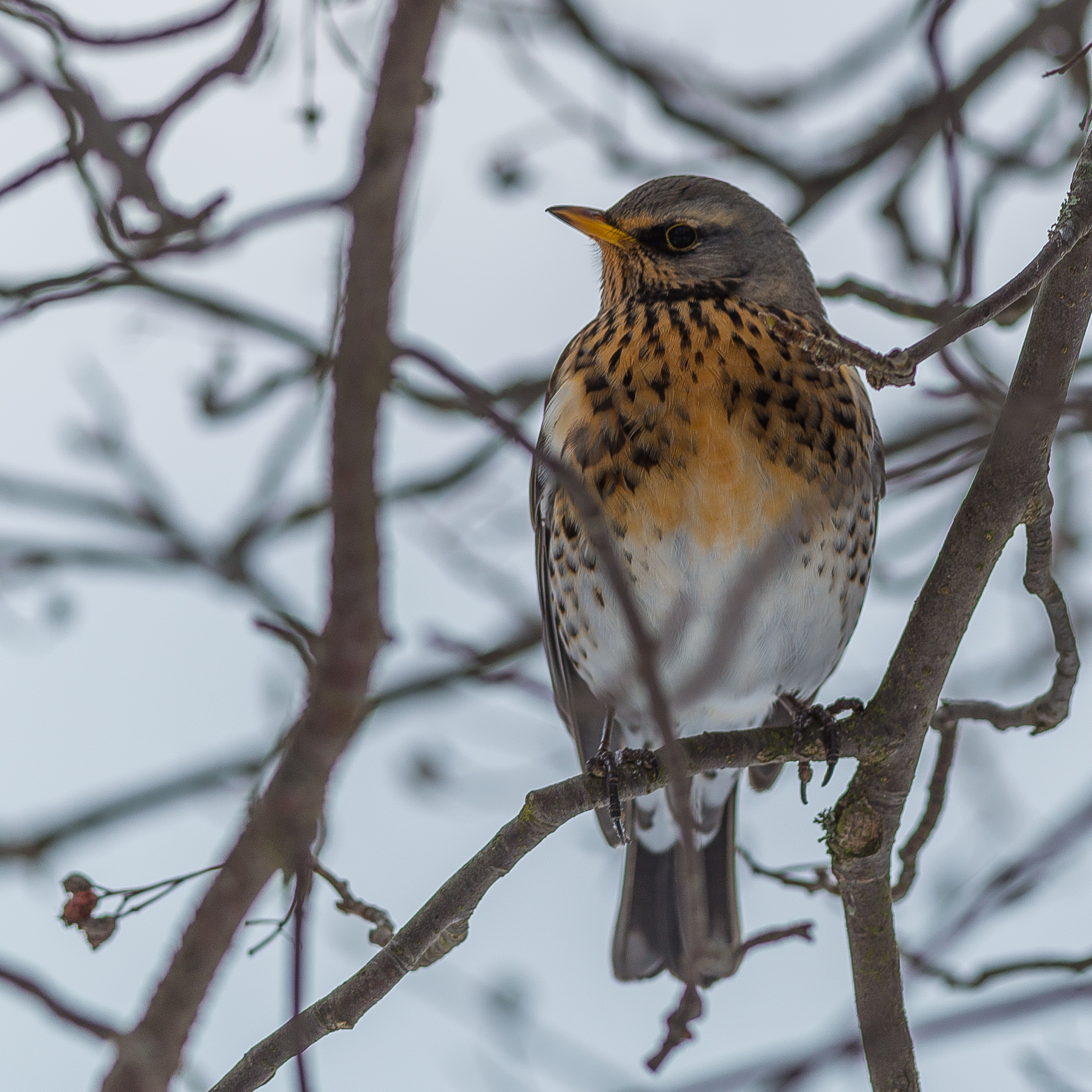 Turdus pilaris, fieldfare, björktrast, Sweden 2015